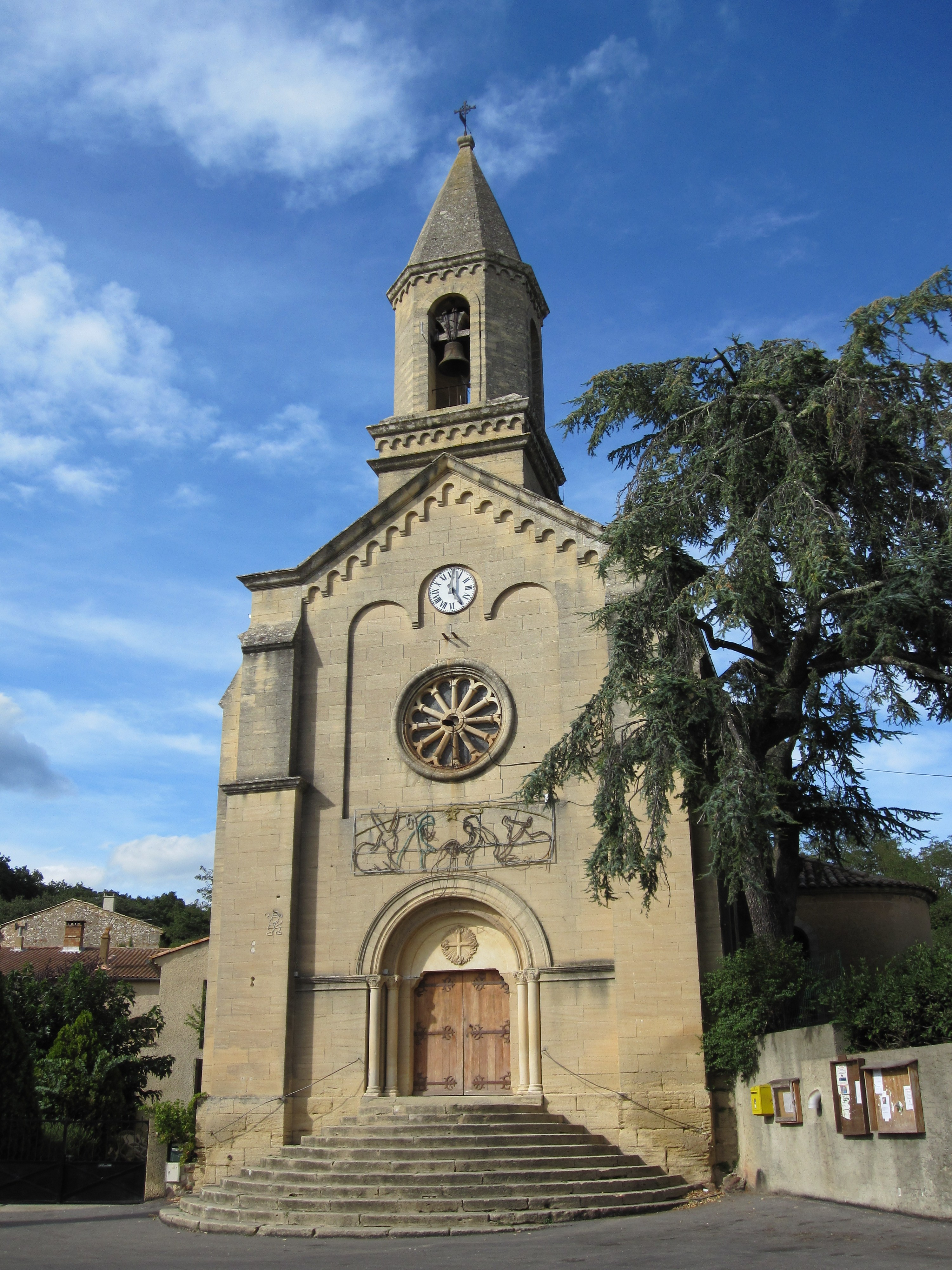 The chapel of La Capelle-et-Masmolène.